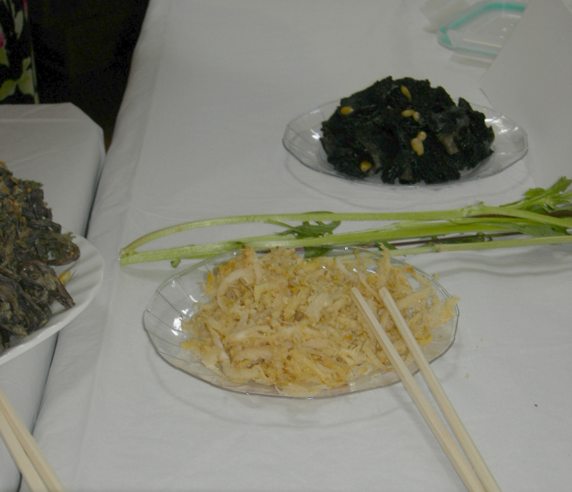 Dish identified as a traditional Korean vegetarian dish of "Dudok root and pine nuts", at Korean Cultural Celebration, part of the Festál series of ethnic events at Seattle Center, Seattle, Washington, U.S. To be honest, I have never heard of "dudok root", and I'm not at all sure this name is correct. If someone can read Korean, help would be welcome. It's Codonopsis lanceolata (더덕)